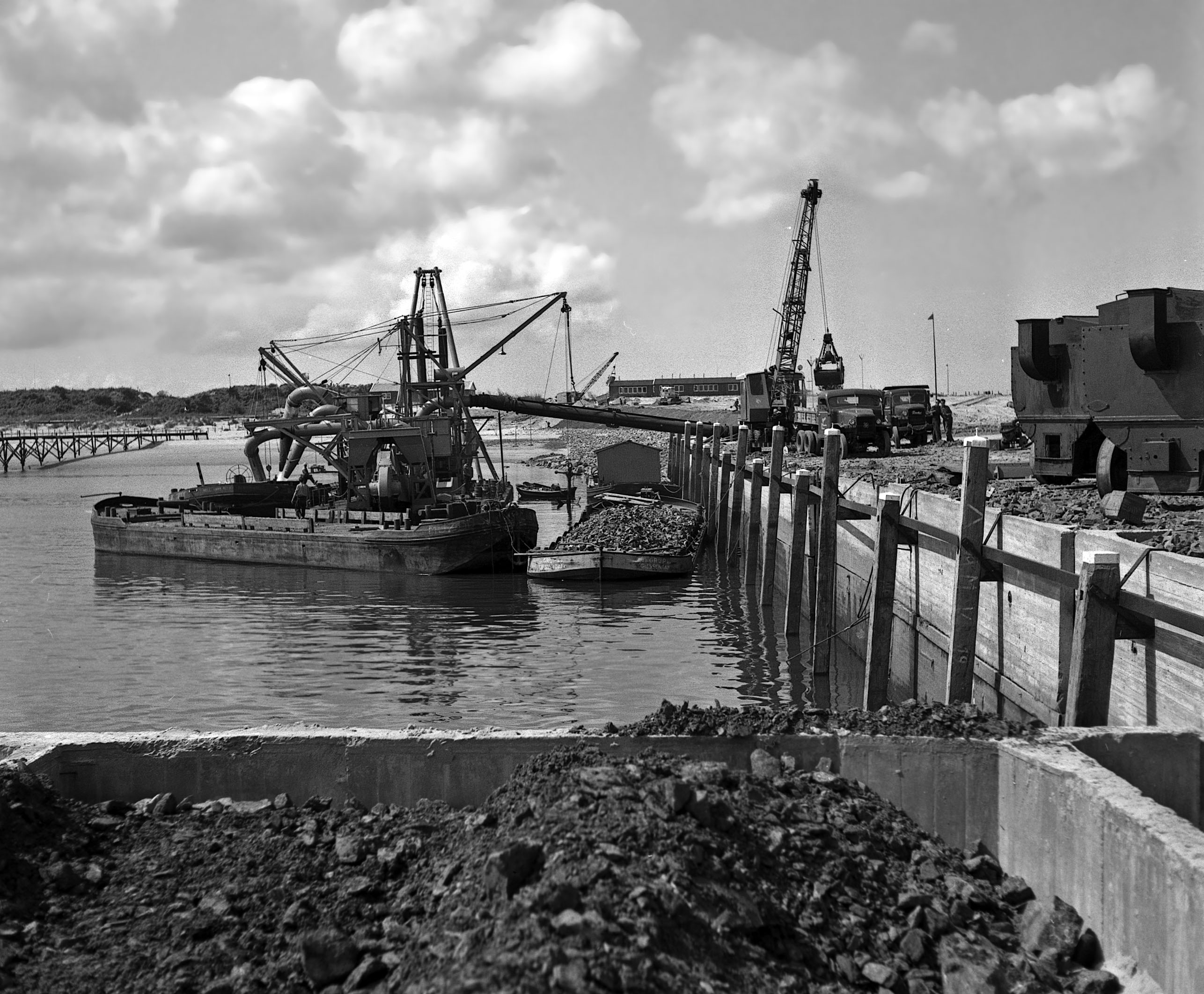 Delta works near Vrouwenpolder (Veere)